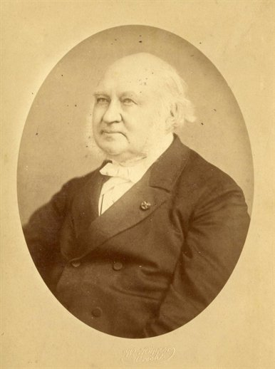 Portrait of Nicolaas Beets (1814-1903). photograph. Utrecht, Utrechts Archief (103989).